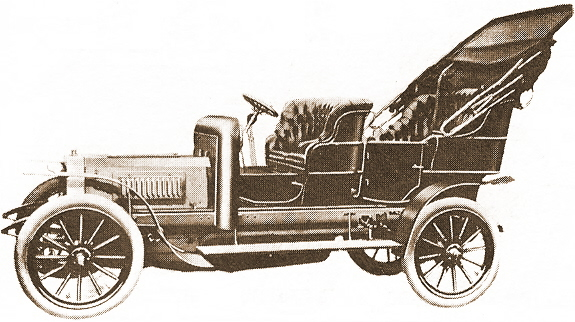 1906 Climax 20/22 hp